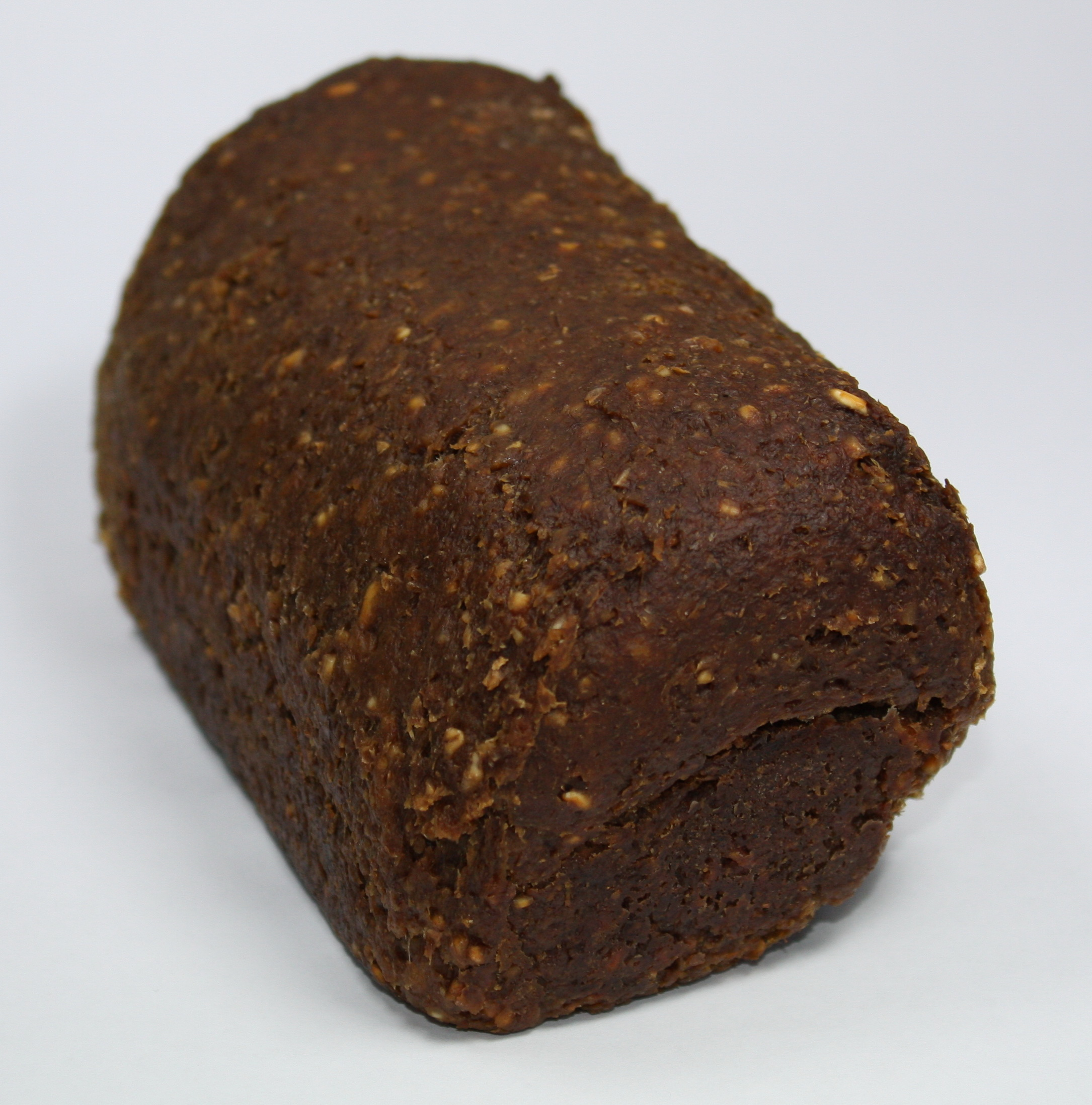 Essene Bread, 100% sproud Spelt, Temperature 100-130°C